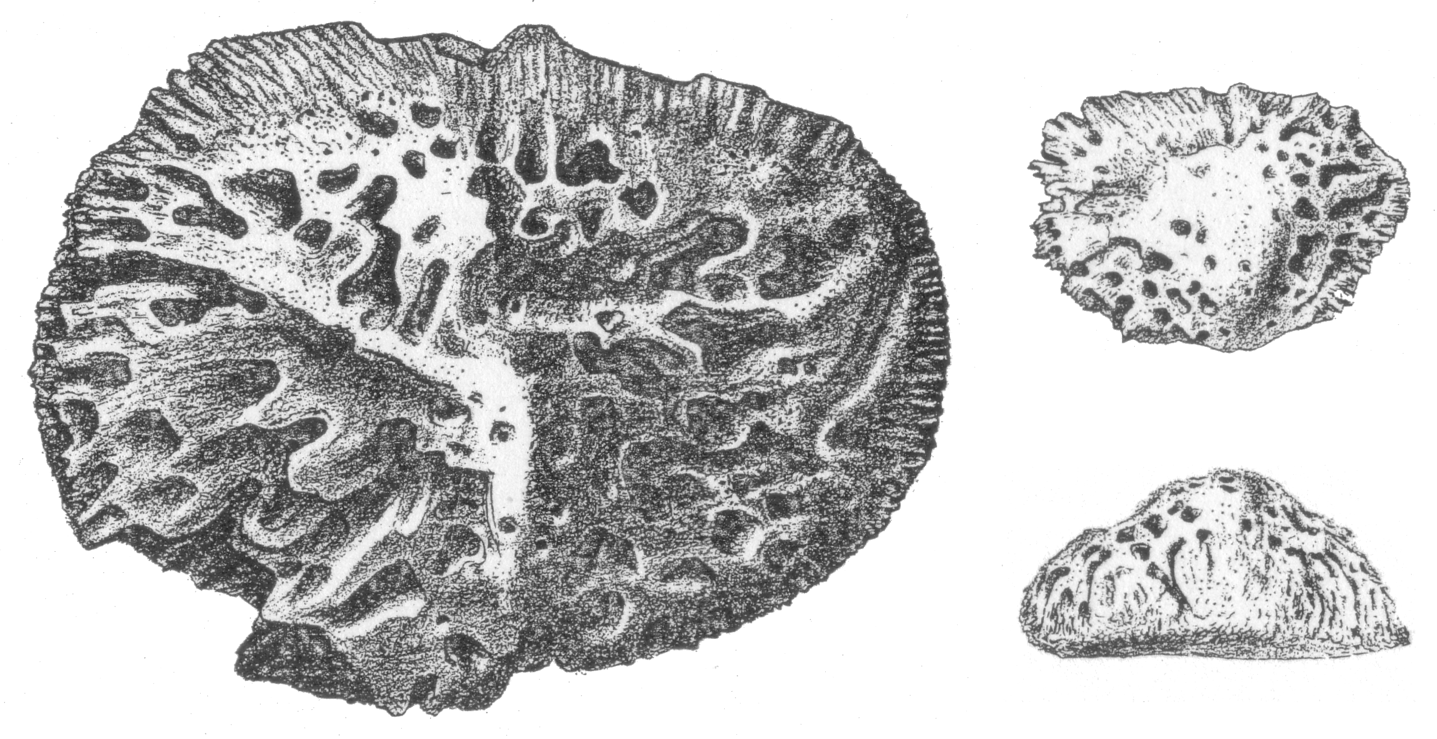 These are drawings of osteoderms (scutes) from Deinosuchus, a massive Cretaceous crocodilian. The osteoderms differ significantly from those of modern species; they are much thicker, and covered in deep and wide pits. The left and upper-right drawings illustrates the dorsal (overhead) view, while the lower-right drawing illustrates the posterior (side) view.